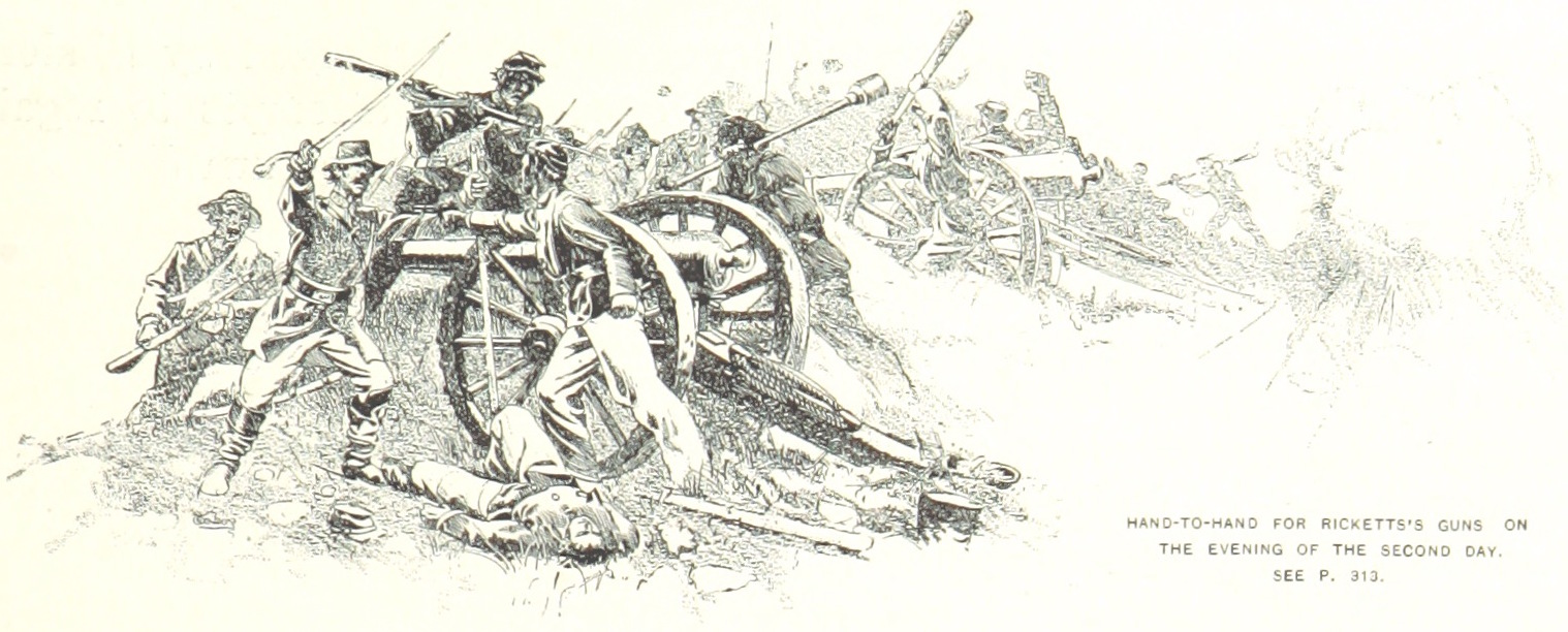 Soldiers from Battery F fight hand to hand against Confederate troops during the Battle of Gettysburg